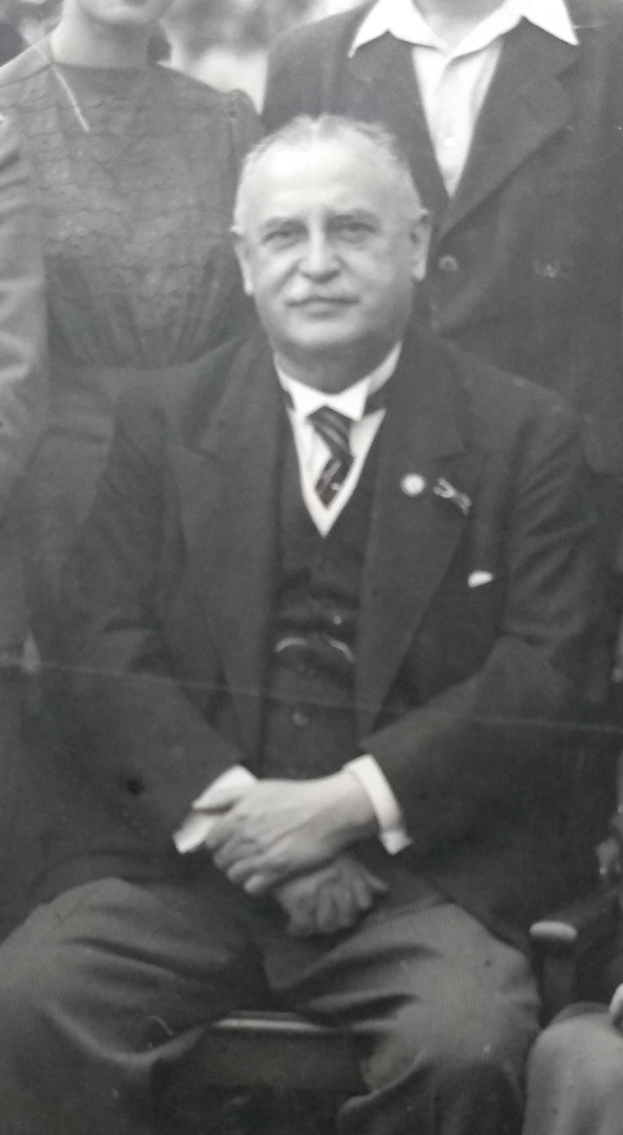 A picture of Hermann Waibel